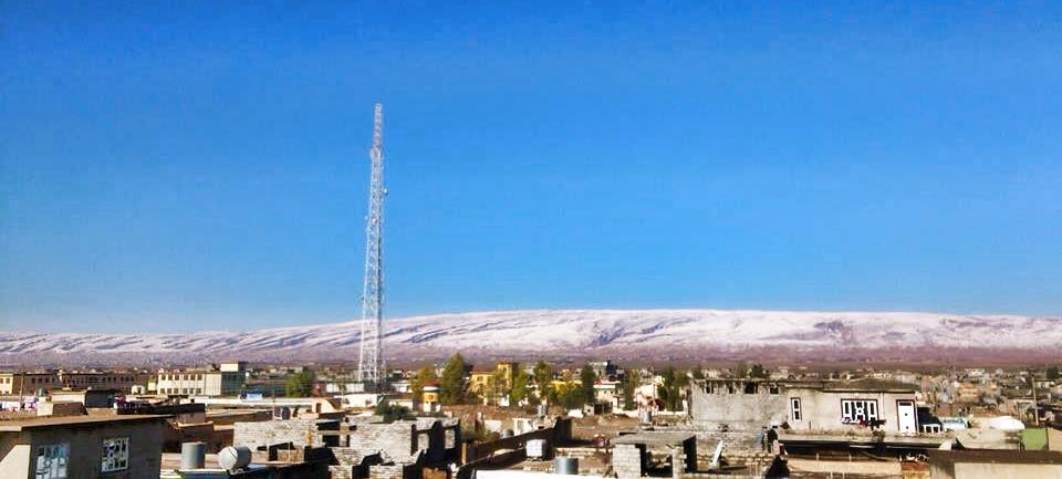 sinjar